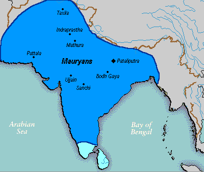 A political map of the Mauryan Empire, including notable cities, such as the capital Pataliputra, and site of the Buddha's enlightenment.this mapis really hard to find txd Green blue represents notable rivers, black represetns modern political borders, and brown represents the border of South Asia. Pataliputra, Sanchi, Ujjain, Bodh Gaya, :w:Taxila]| , Mathura, Indraprastha and Pattala Kaushambi, [pryag] are shown.